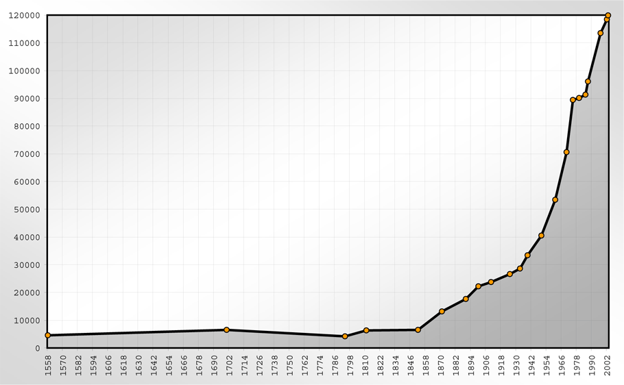 This image shows the population statistics of Ingolstadt (Germany).